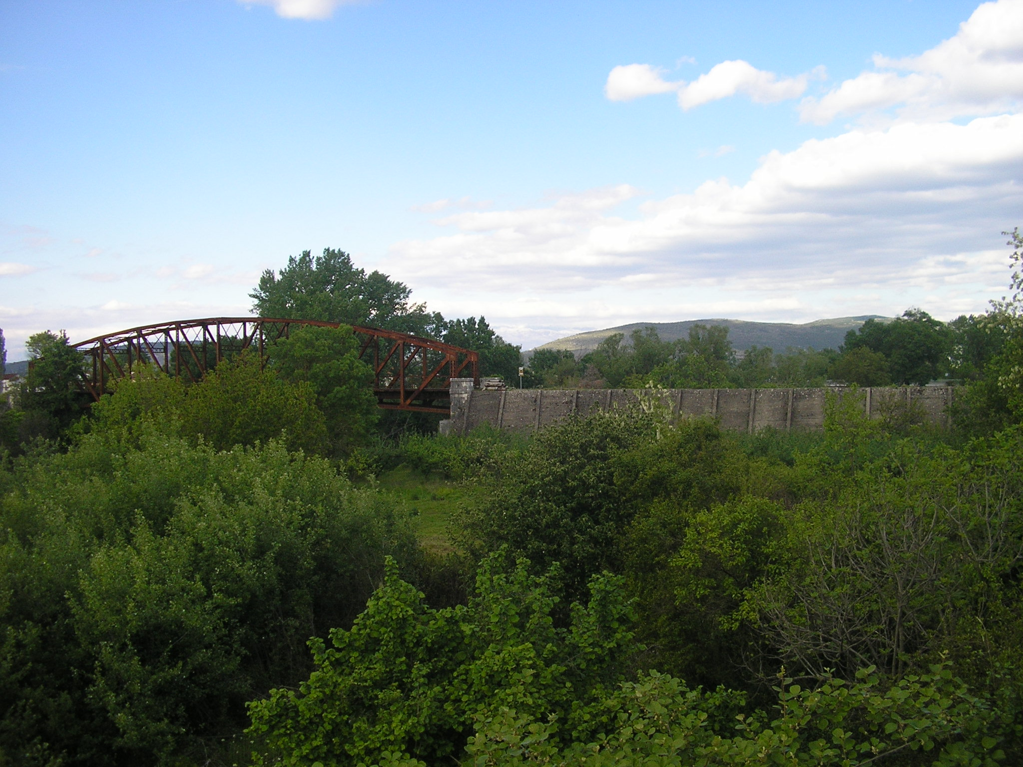 Krupa bridge